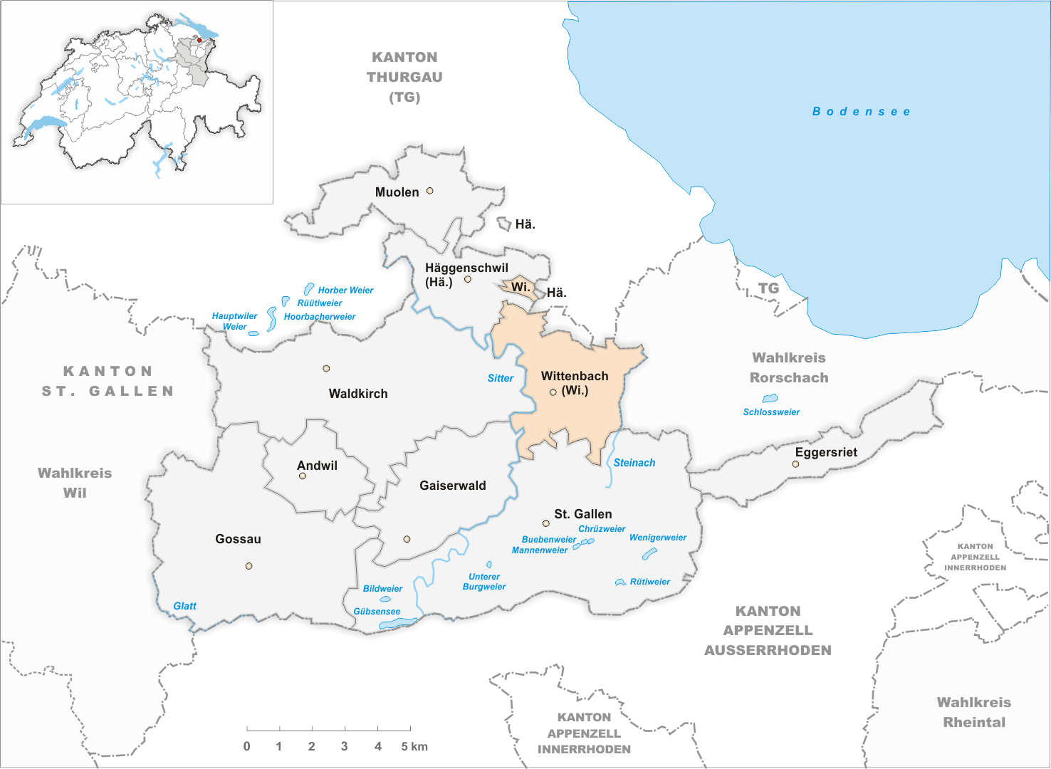 Municipality Wittenbach